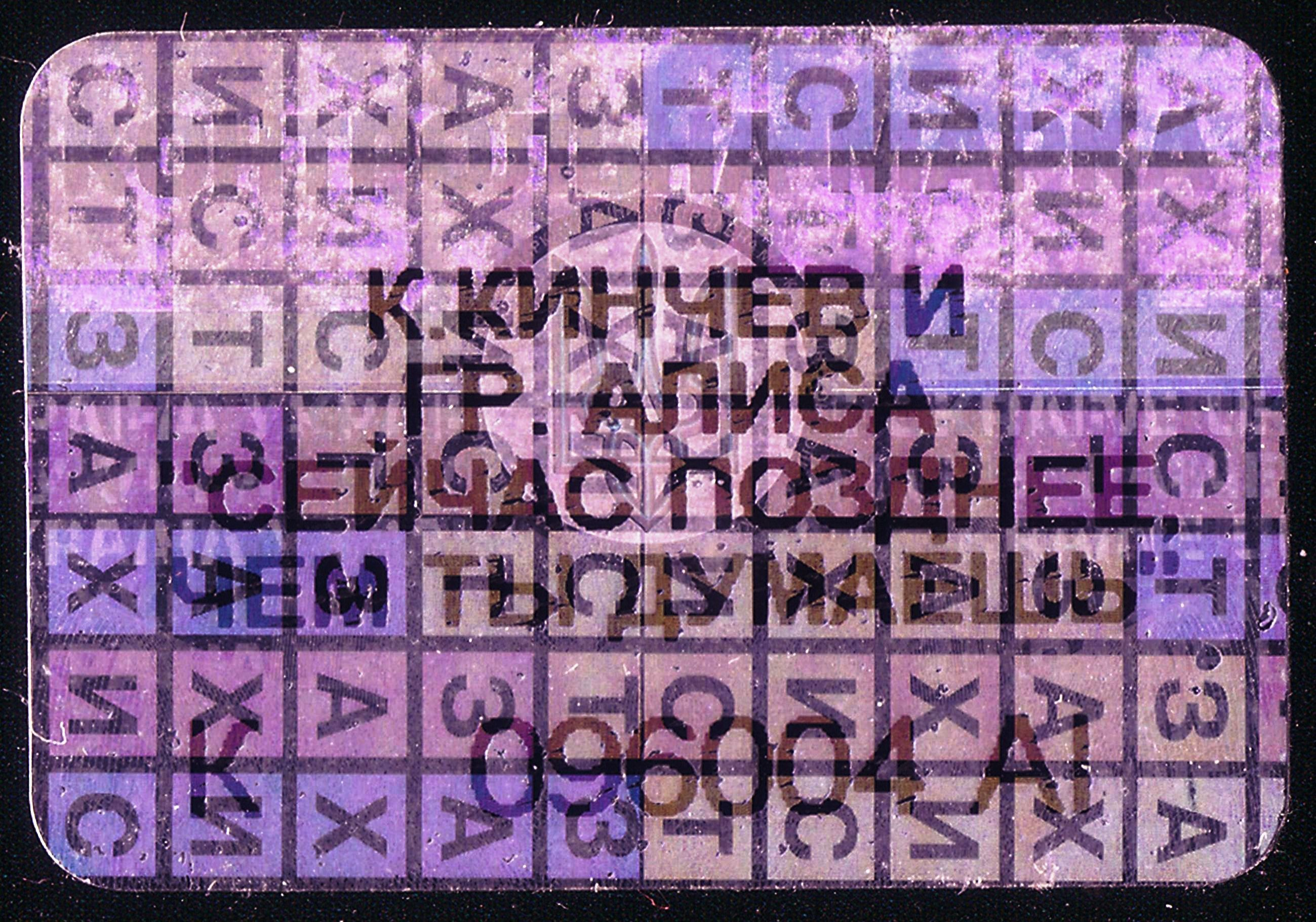 Excise golo stamp #2 of Ukraine 2000s